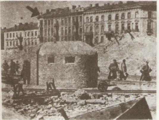 Jack Eisner Raising the Flag during Warsaw Ghetto Uprising